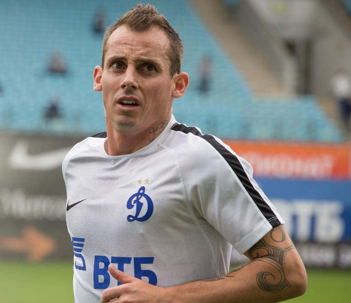 Luke Wilkshire with FC Dynamo Moscow in a game against FC SKA-Khabarovsk.